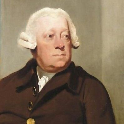 Lord George Augustus Cavendish (cropped) by Mather Brown - similar to a portrait in Derby Museum